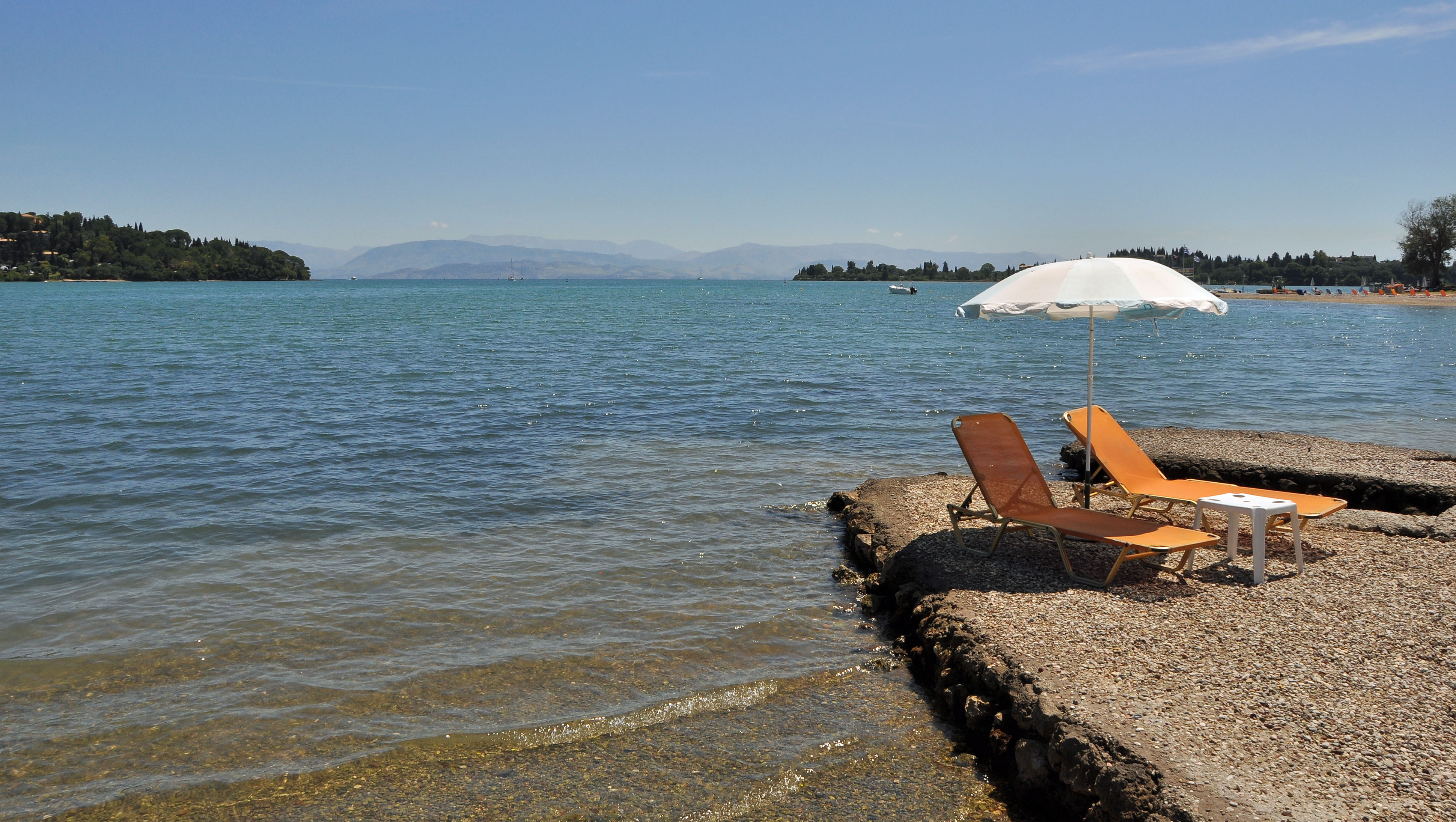 Corfu (Greece): Gouvia Bay